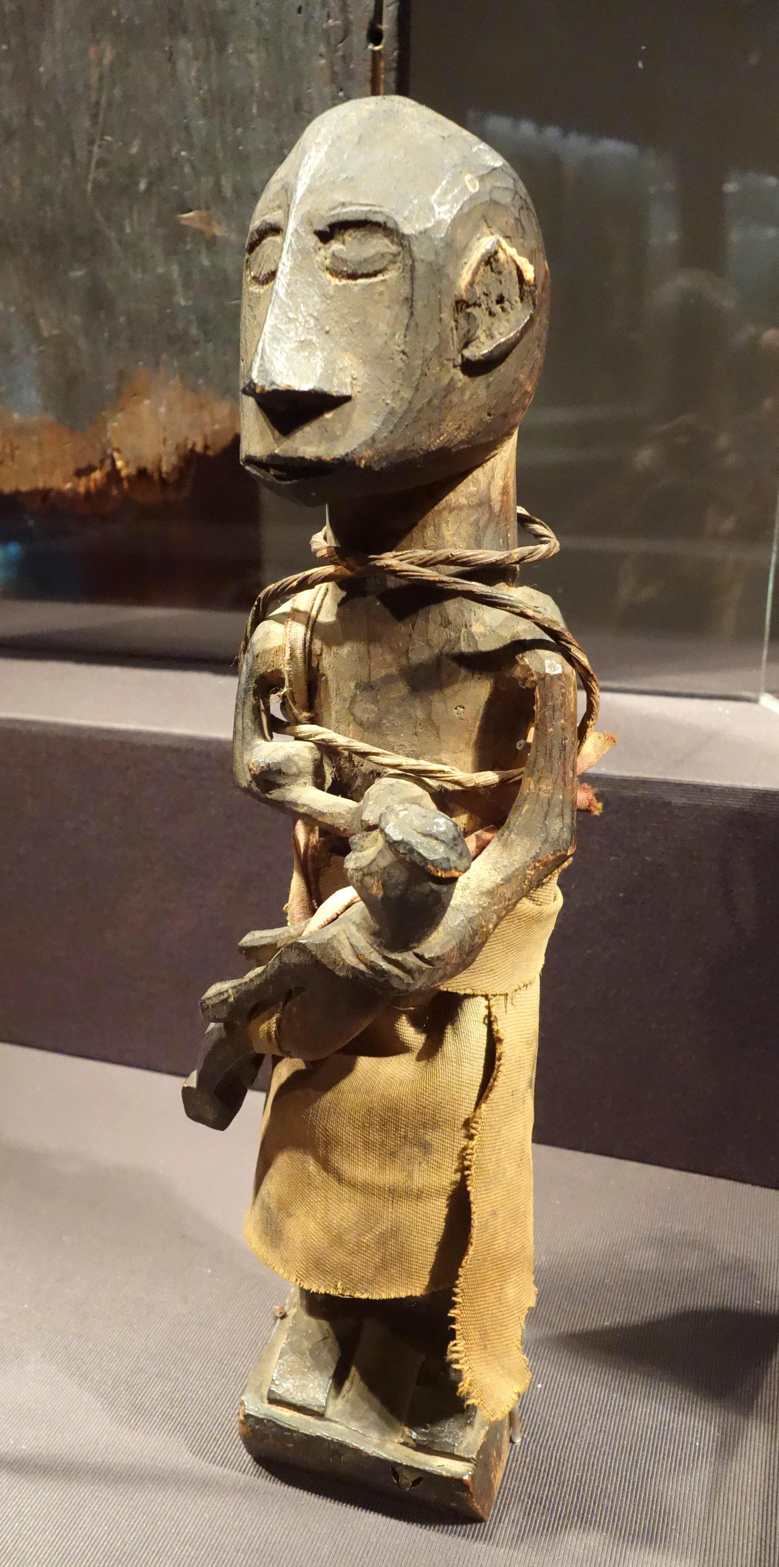 Exhibit in the De Young Museum, San Francisco, California, USA. This artwork is in the public domain because the artist died more than 70 years ago.